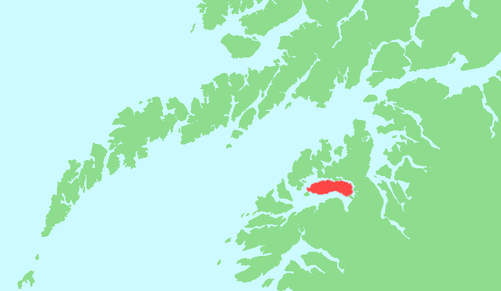 Locator map of Finnøya in Hamarøy, Nordland, Norway